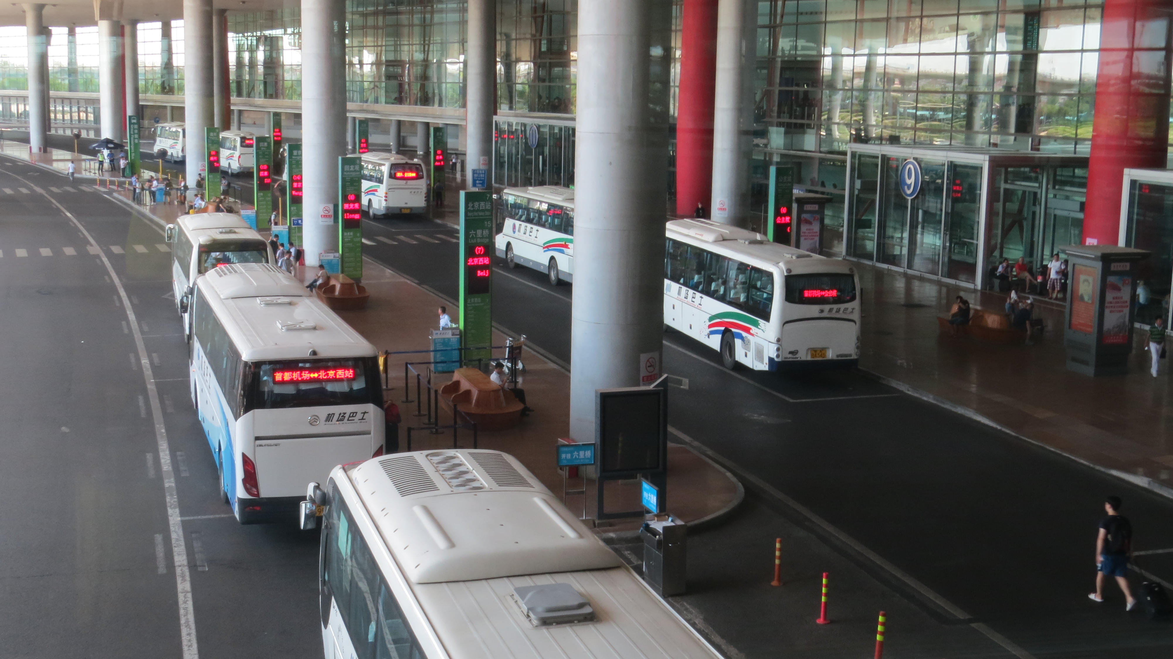 Yutongs and Golden Dragons at the Ground Transportation Centre of ZBAA T3.